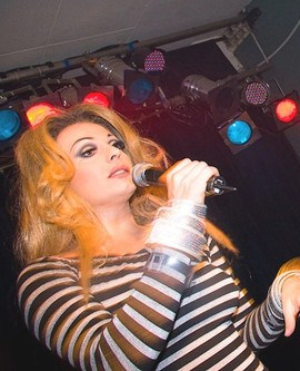 Prohibida